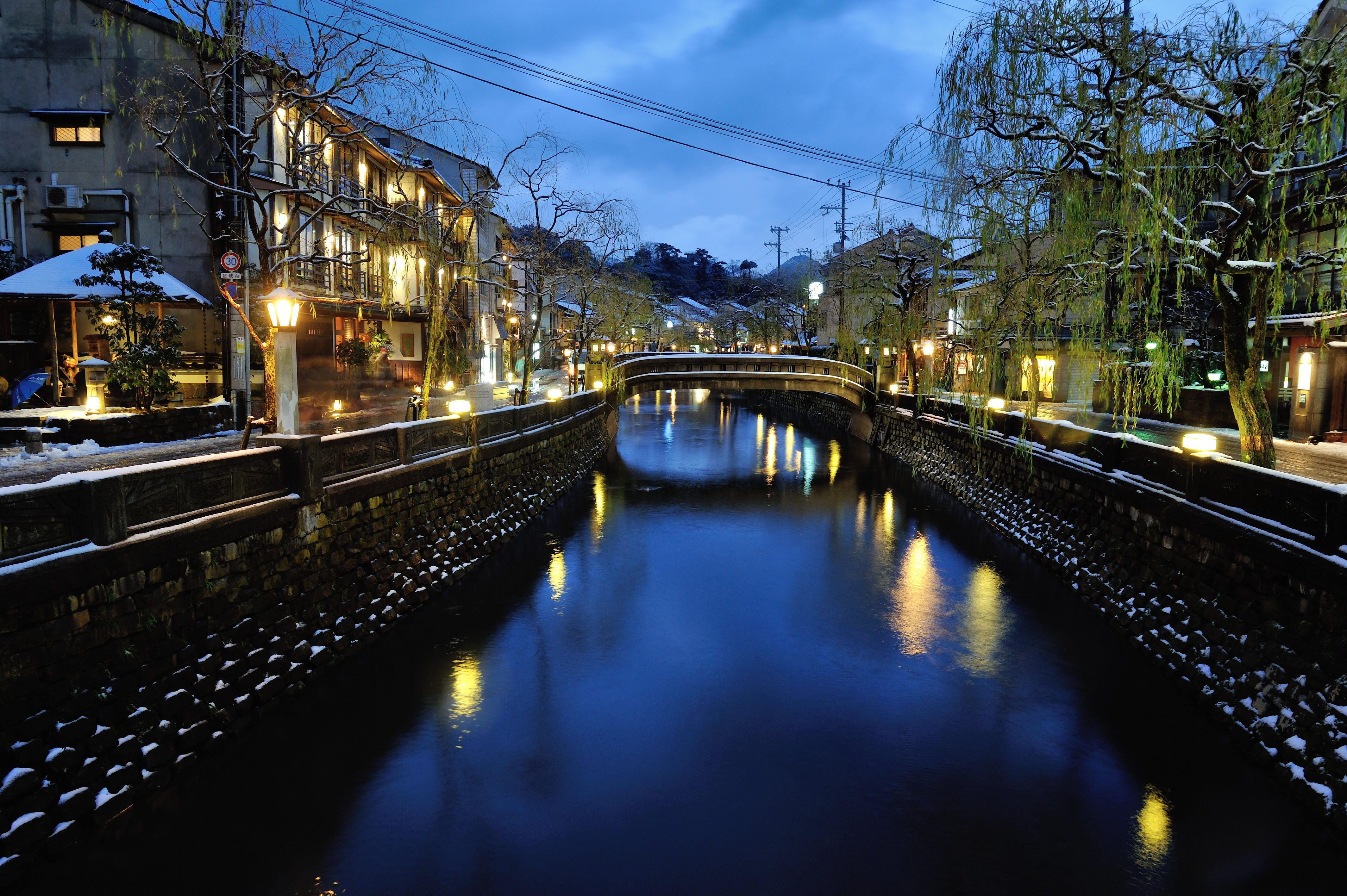 Kinosaki Onsen in the wintertime at night.